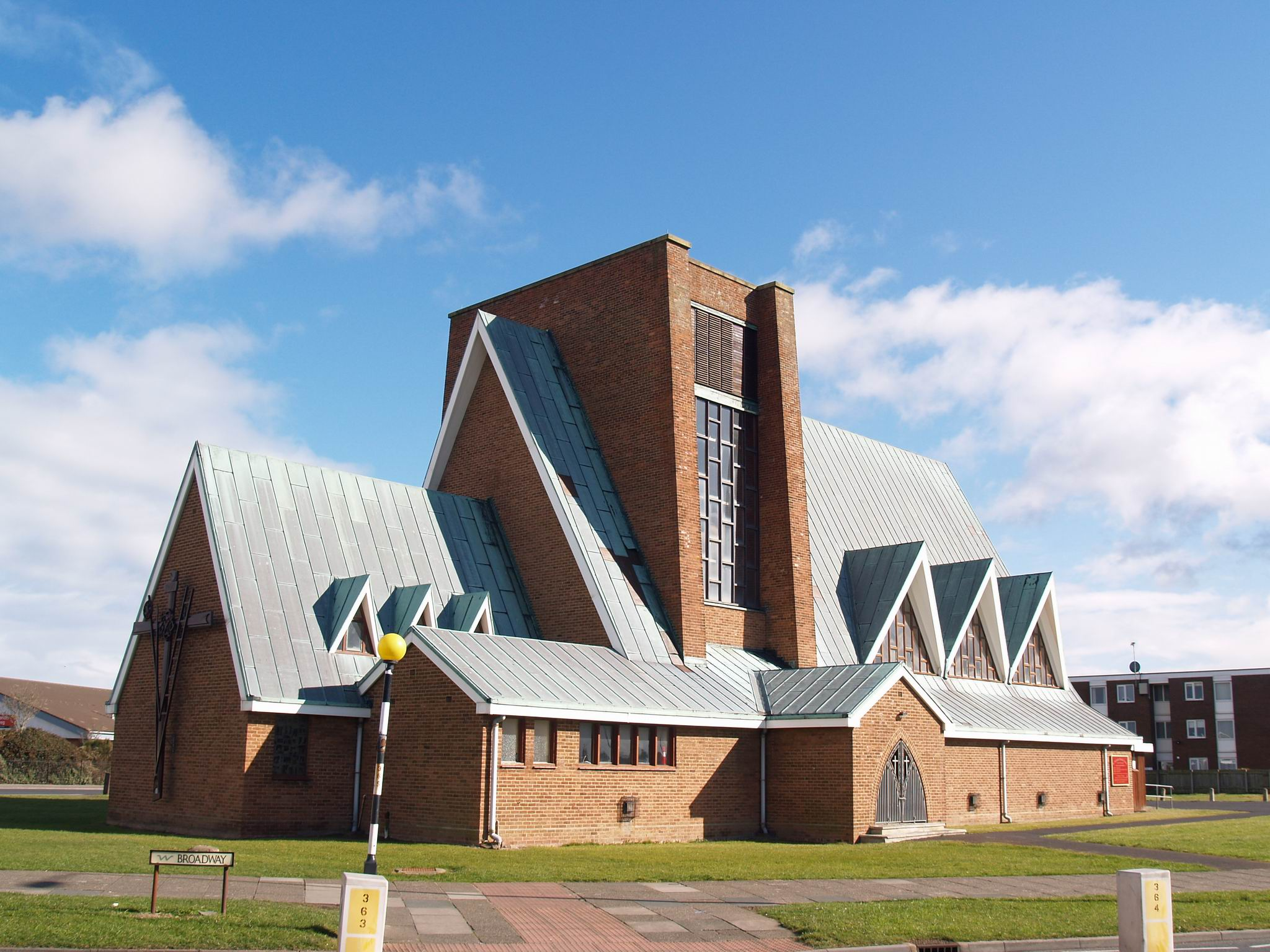 Fleetwood-Mar 2008 - St Nicholas' Church, Broadway (1962) Designed by Laurence King